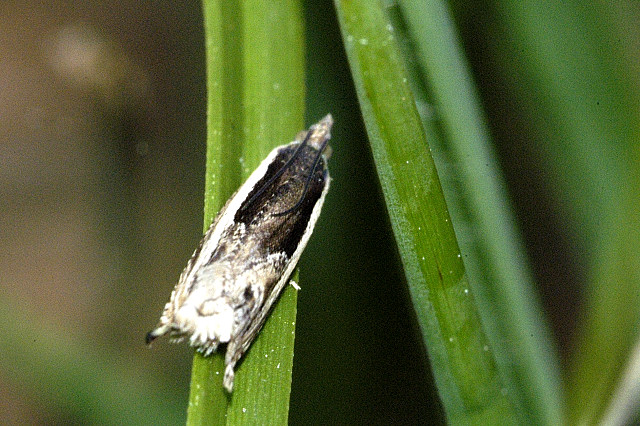 Picture taken in Commanster, Belgian High Ardennes . Species: Ancylis apicella